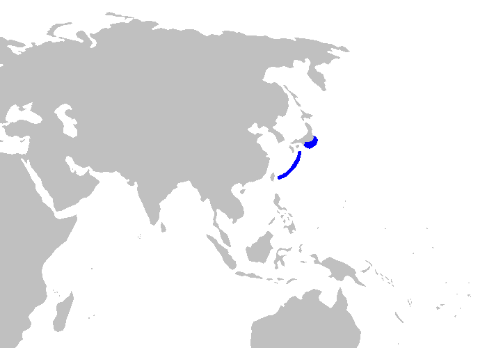 Distribution map for Apristurus japonicus